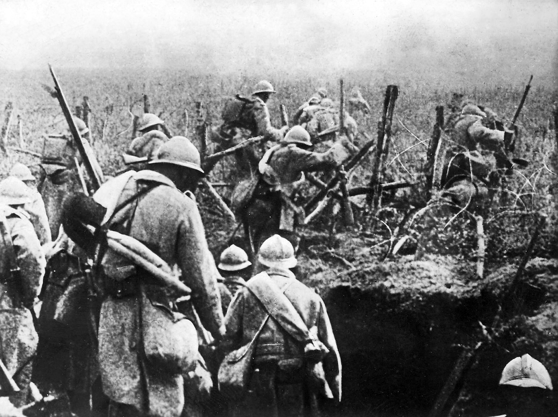 French soldiers moving into attack from their trench during the Verdun battle, 1916.